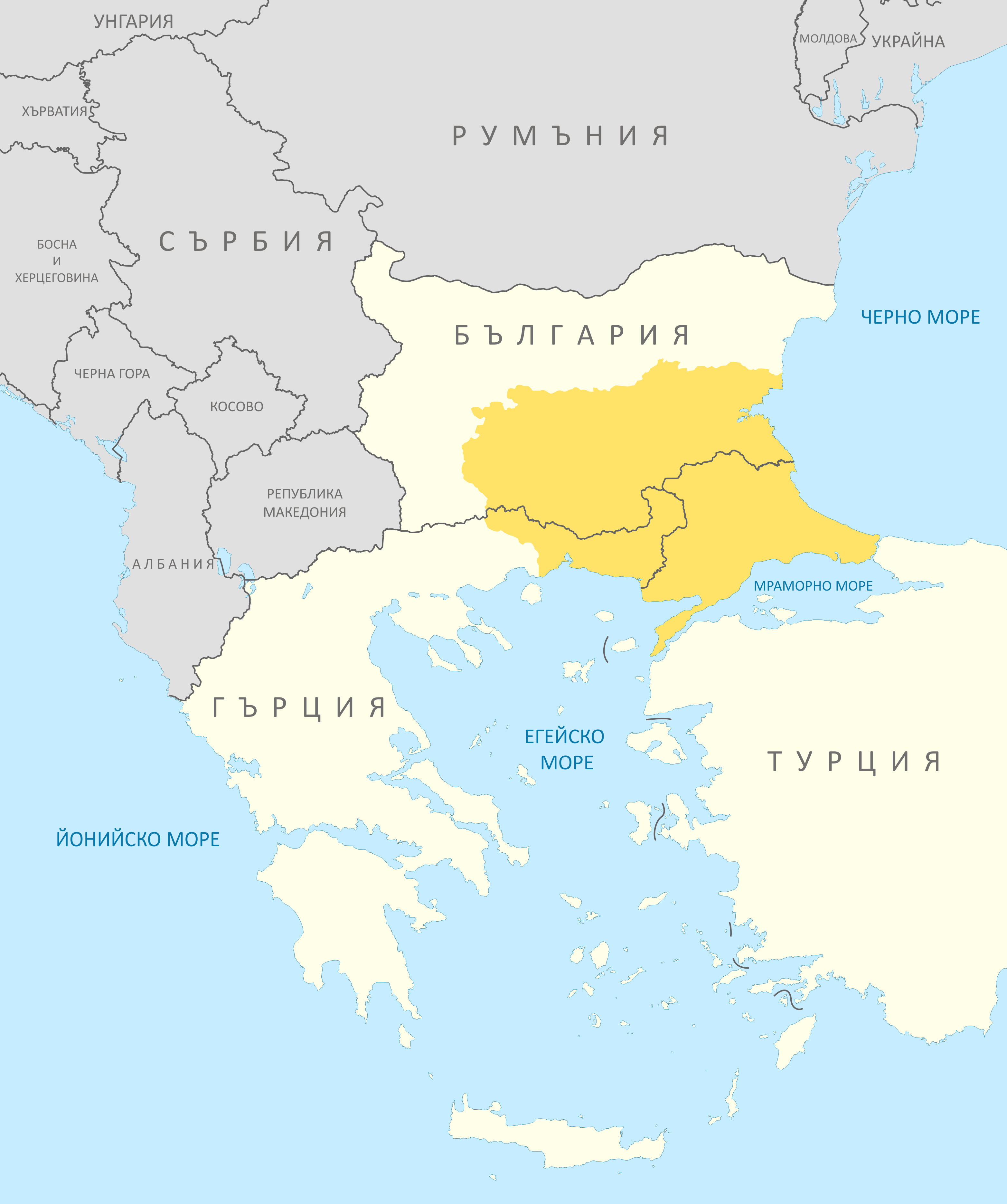 Thrace and present-day state borderlines